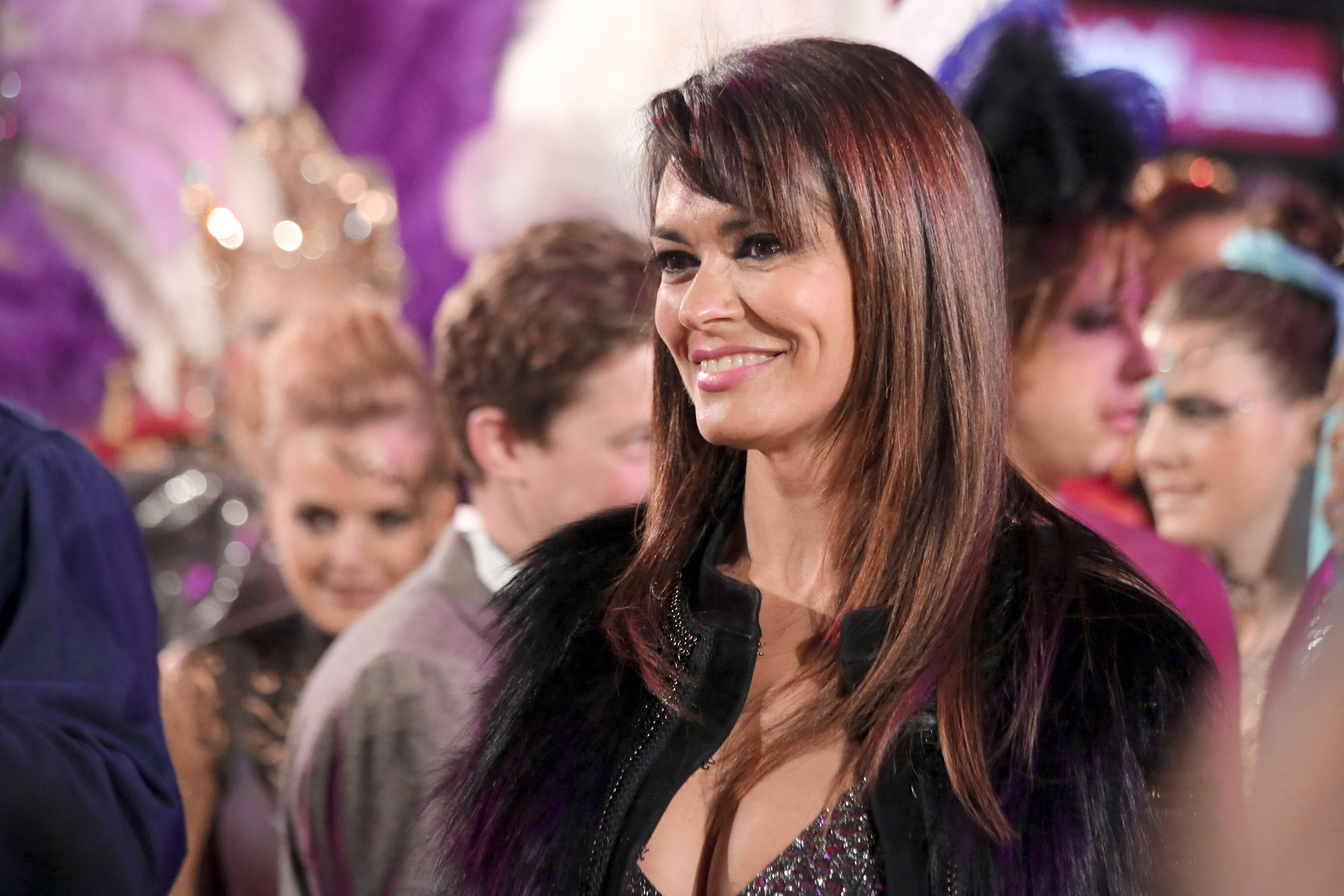 Maria Grazia Cucinotta on the 'magenta carpet' at Life Ball 2013 at the square in front of the city hall of Vienna, Vienna, Austria.